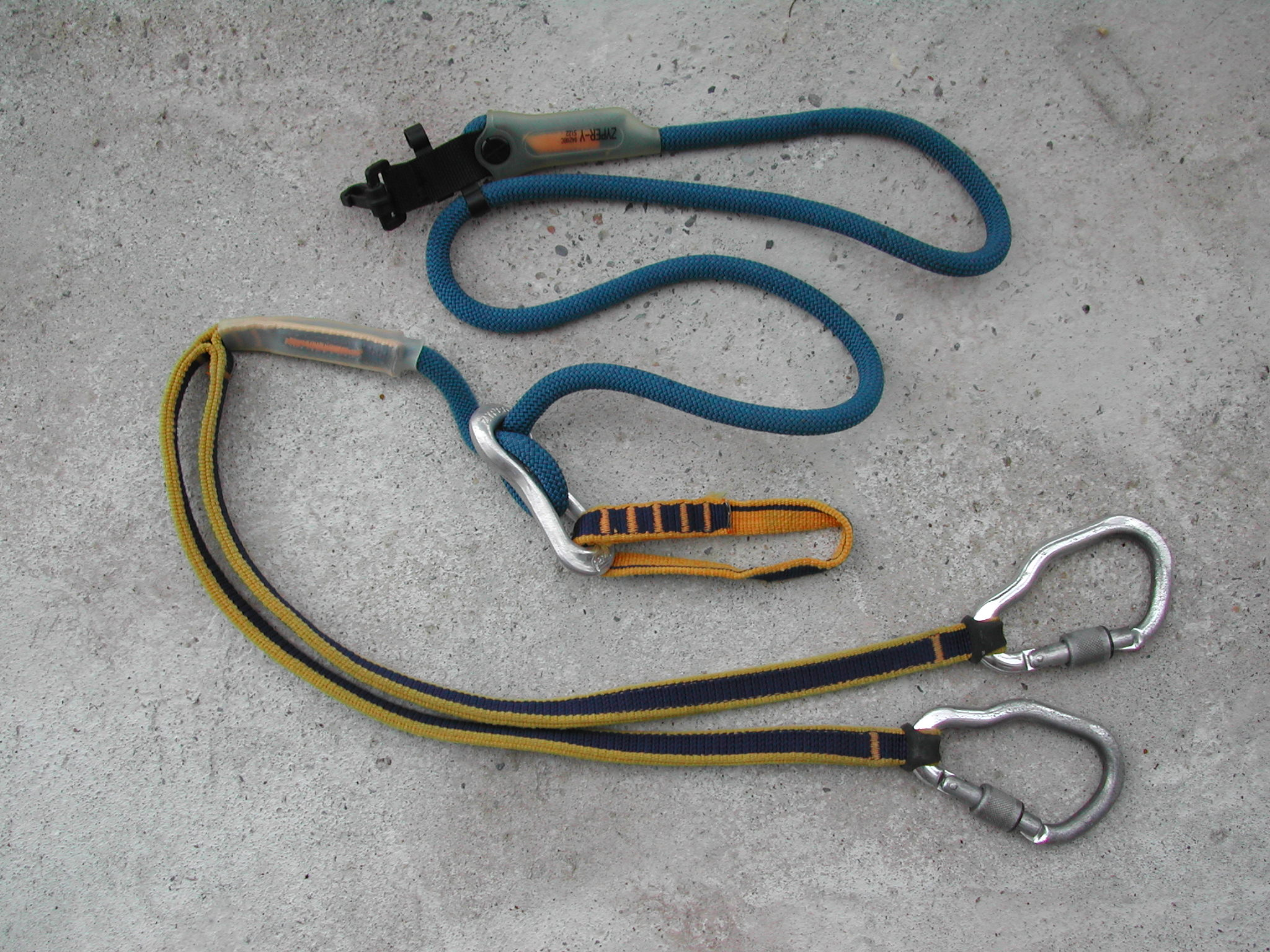 Via ferrata lanyard of type ZyperY by Petzl with rope shock absorber.